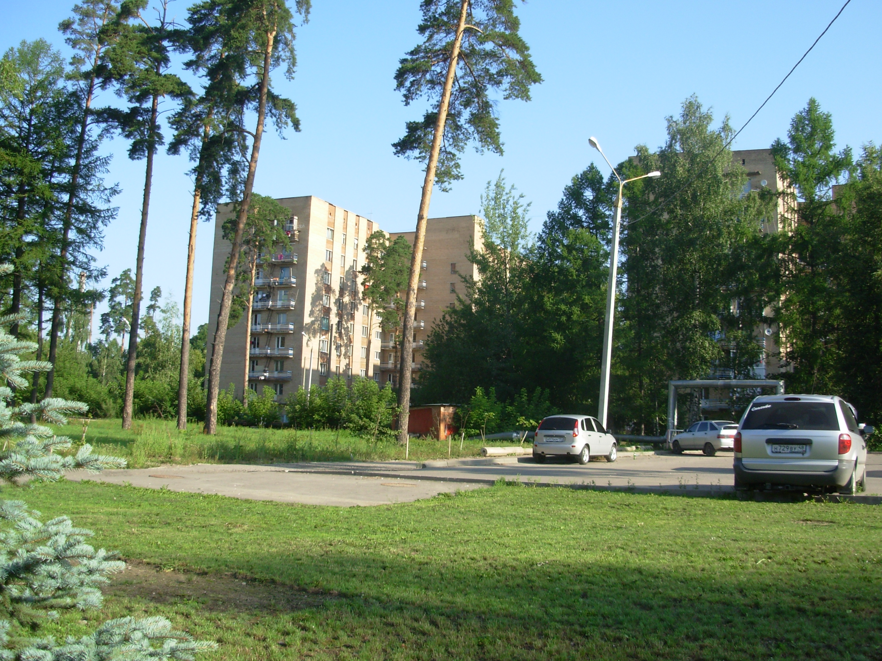 MSFU student accommodation blocks in Mytischi.